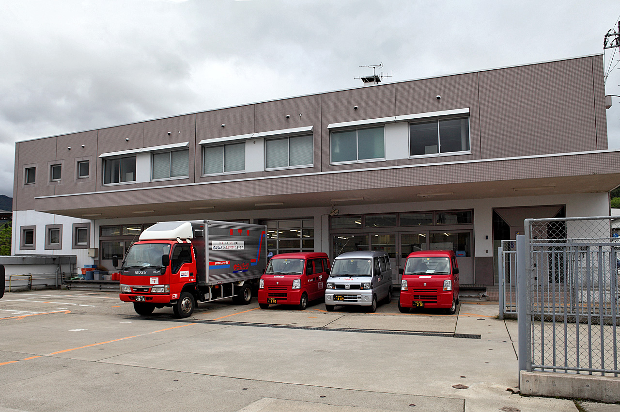 Tajima Post office in Minamiaizu, Fukushima